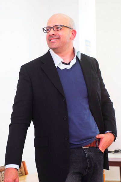 Arch. Richard Moreta Castillo during lecture.